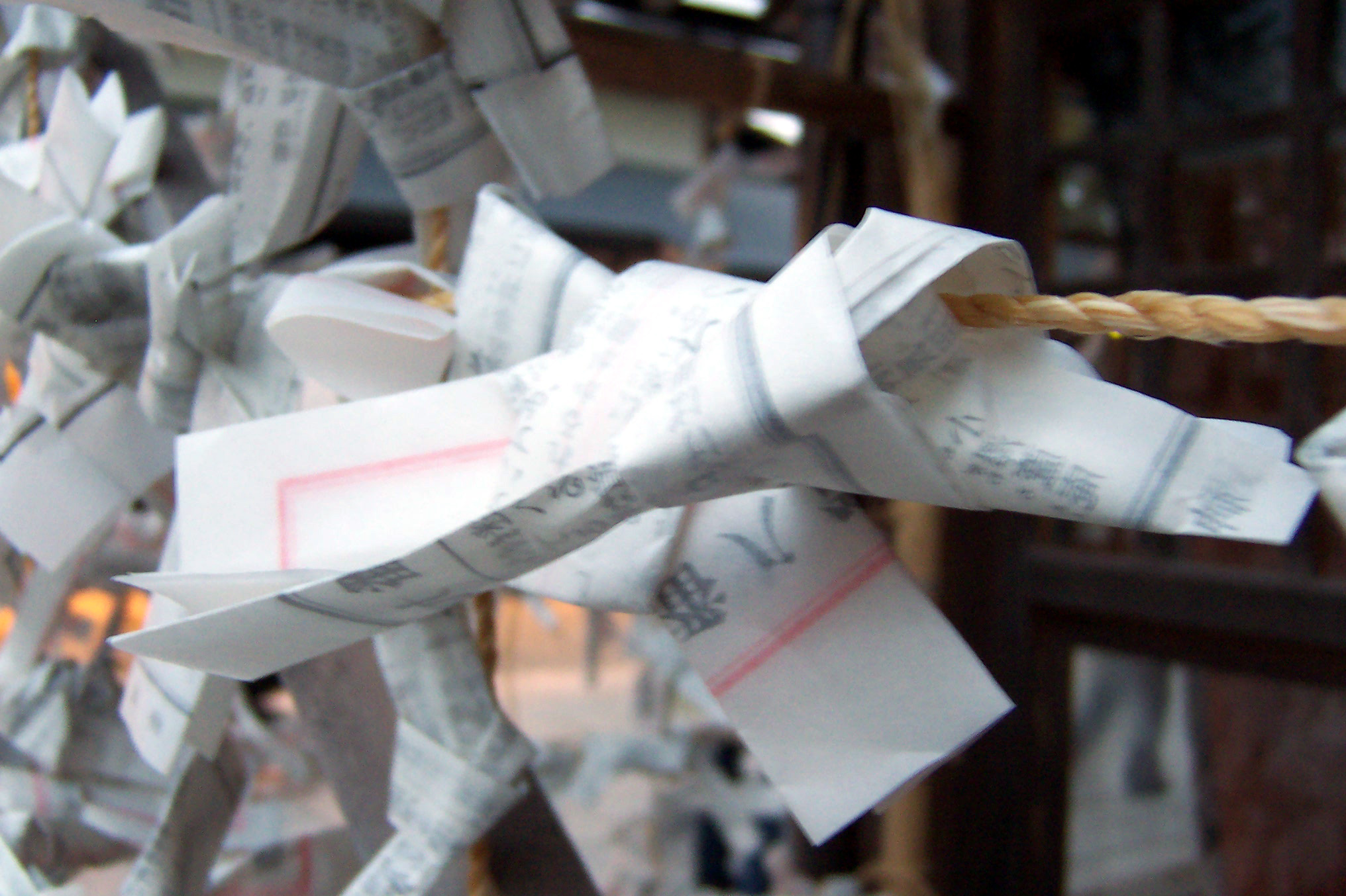 Bad luck omikuji tied to ropes at the Yasaka shrineBad fortune 02